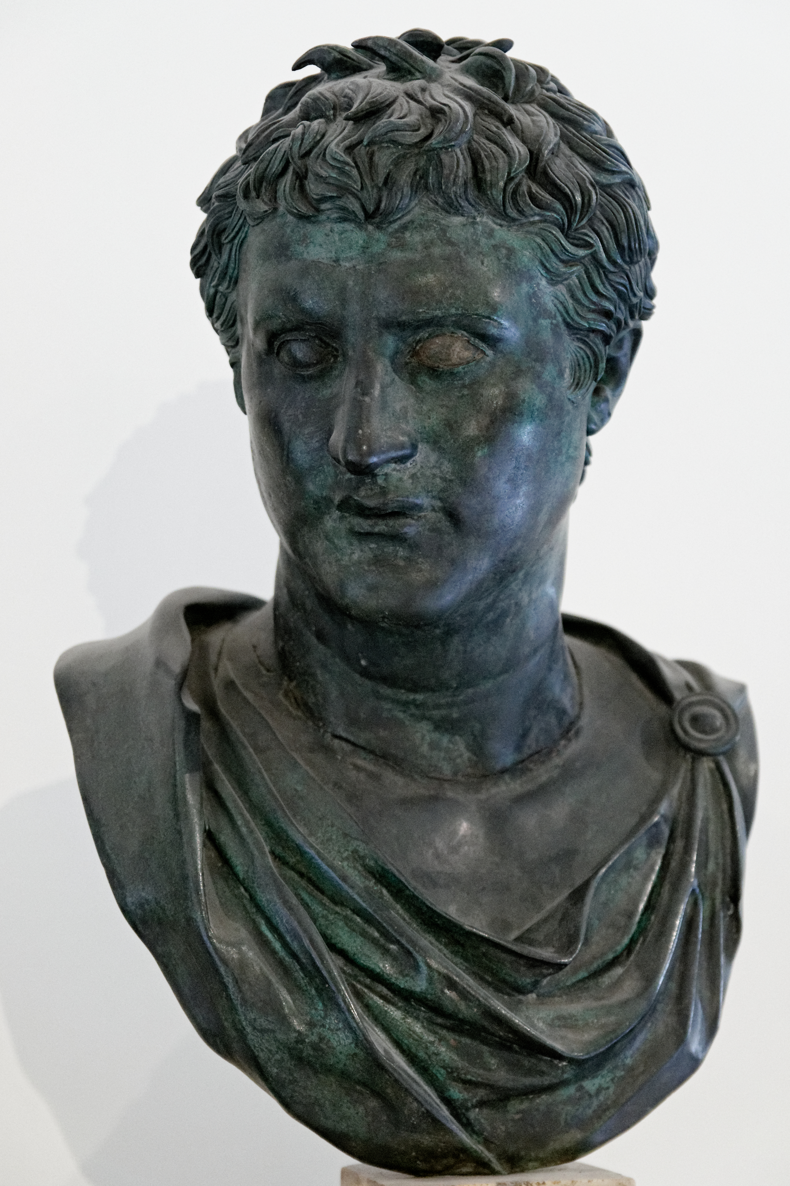 Portrait of an unidentified Hellenistic ruler, perhaps Eumenes II. The bust is modern.